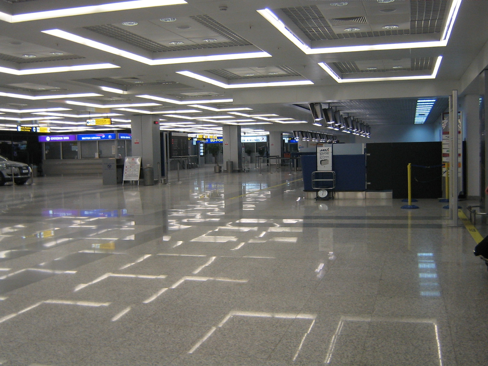 Check-in area at Belgrade Airport Terminal 2, Serbia